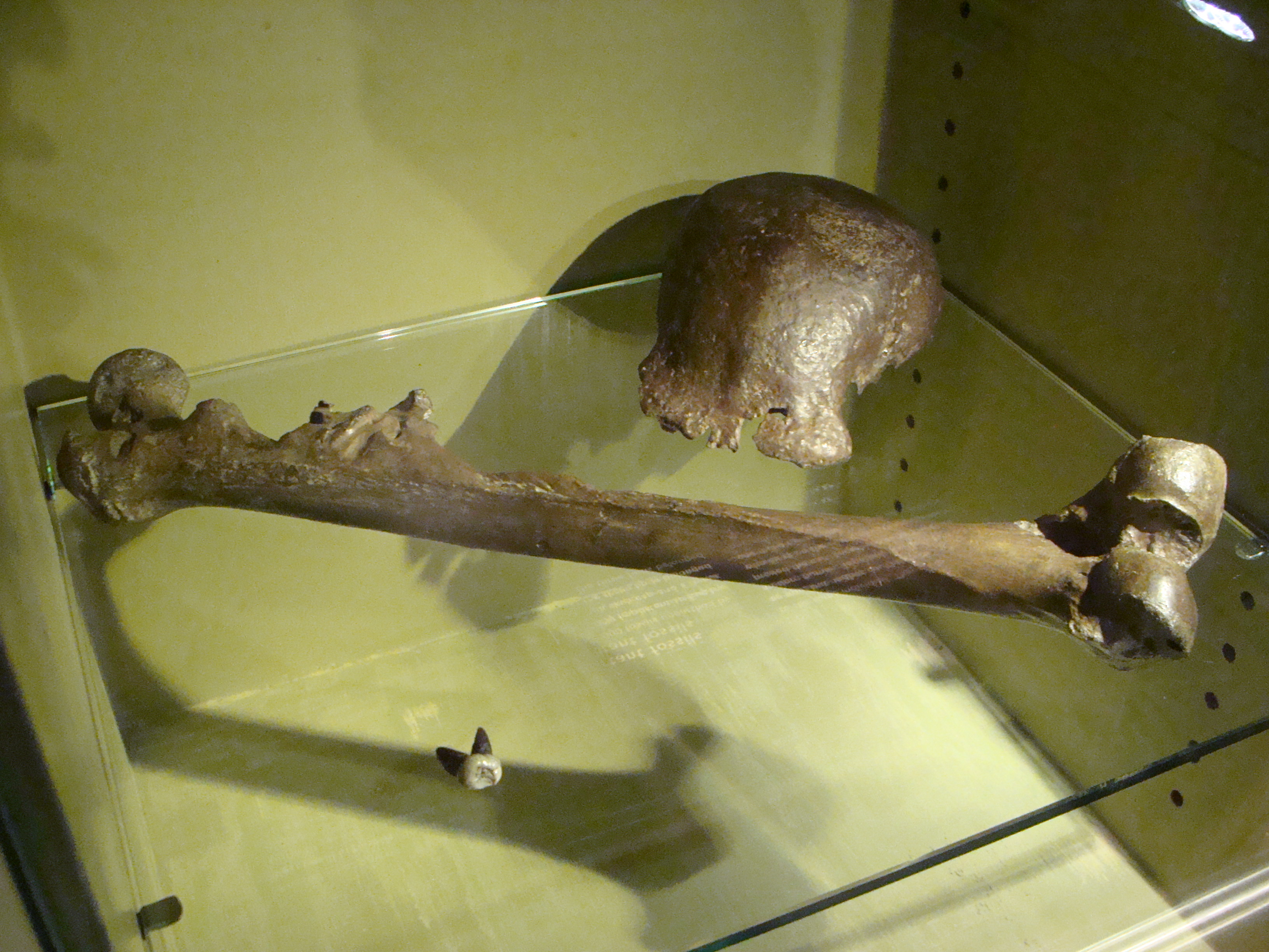 Original fossils of Pithecanthropus erectus (now Homo erectus) found in Java in 1891. It was on display at the exhibition 'Dubois' in the National Museum of Natural History 'Naturalis' in Leiden, the Netherlands. Dutch anatomist Eugene Dubois had been fascinated with Charles Darwin's theories of evolution, so set out to find an early human.(1890s) He first described the species as Pithecanthropus erectus ("upright ape-man"), based on a calotte (skullcap) and a modern-looking femur found from the bank of the Solo River at Trinil, in central Java. (This species is now regarded as Homo erectus.) His find is commonly referred to as Java Man.